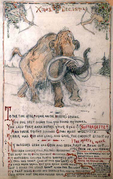 1912 Christmas card by Charles R. Knight for Henry Fairfield Osborn featuring a woolly mammoth and a poem.